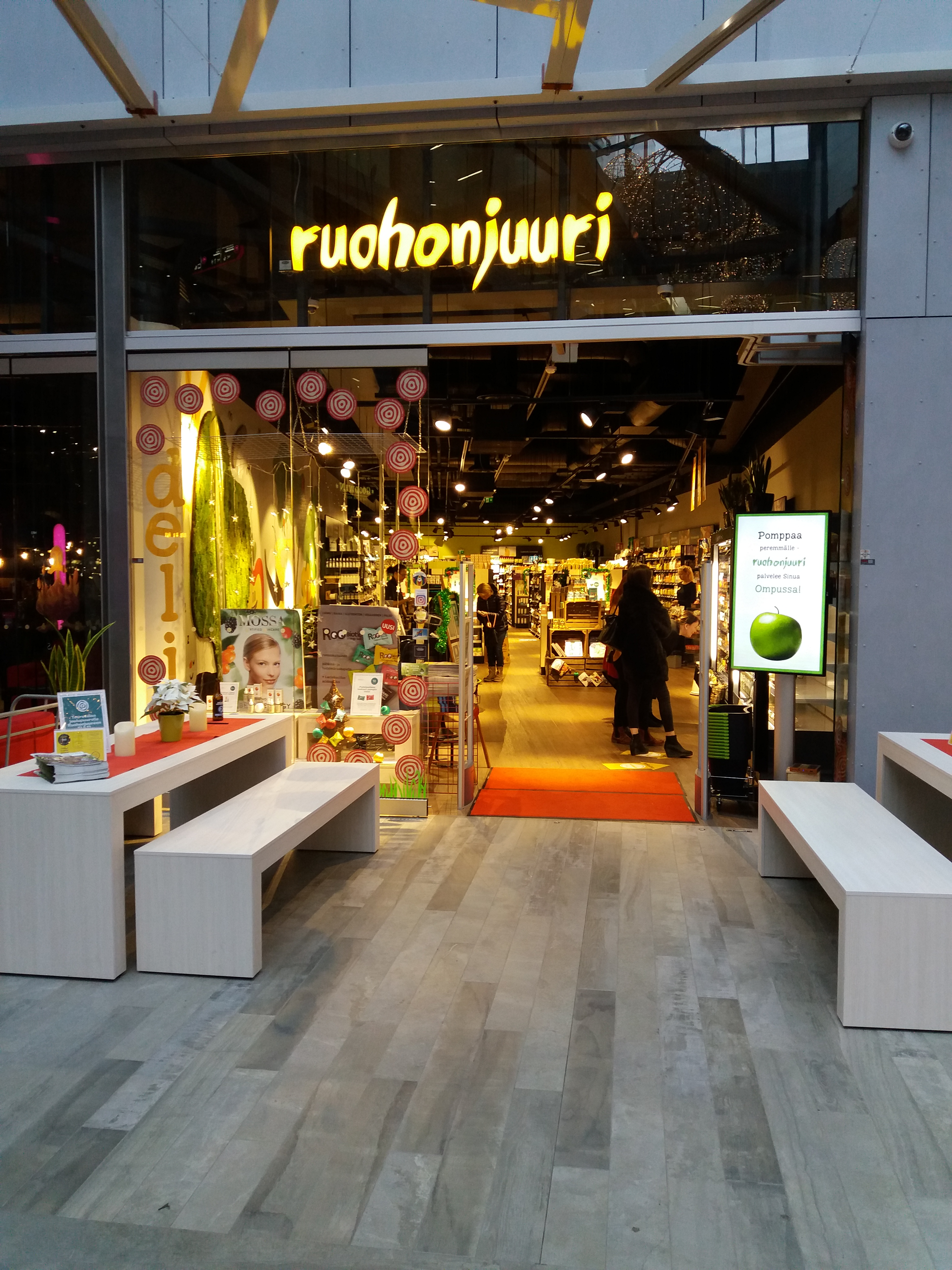 Ruohonjuuri food shop in Iso Omena shopping mall, Espoo, Finland